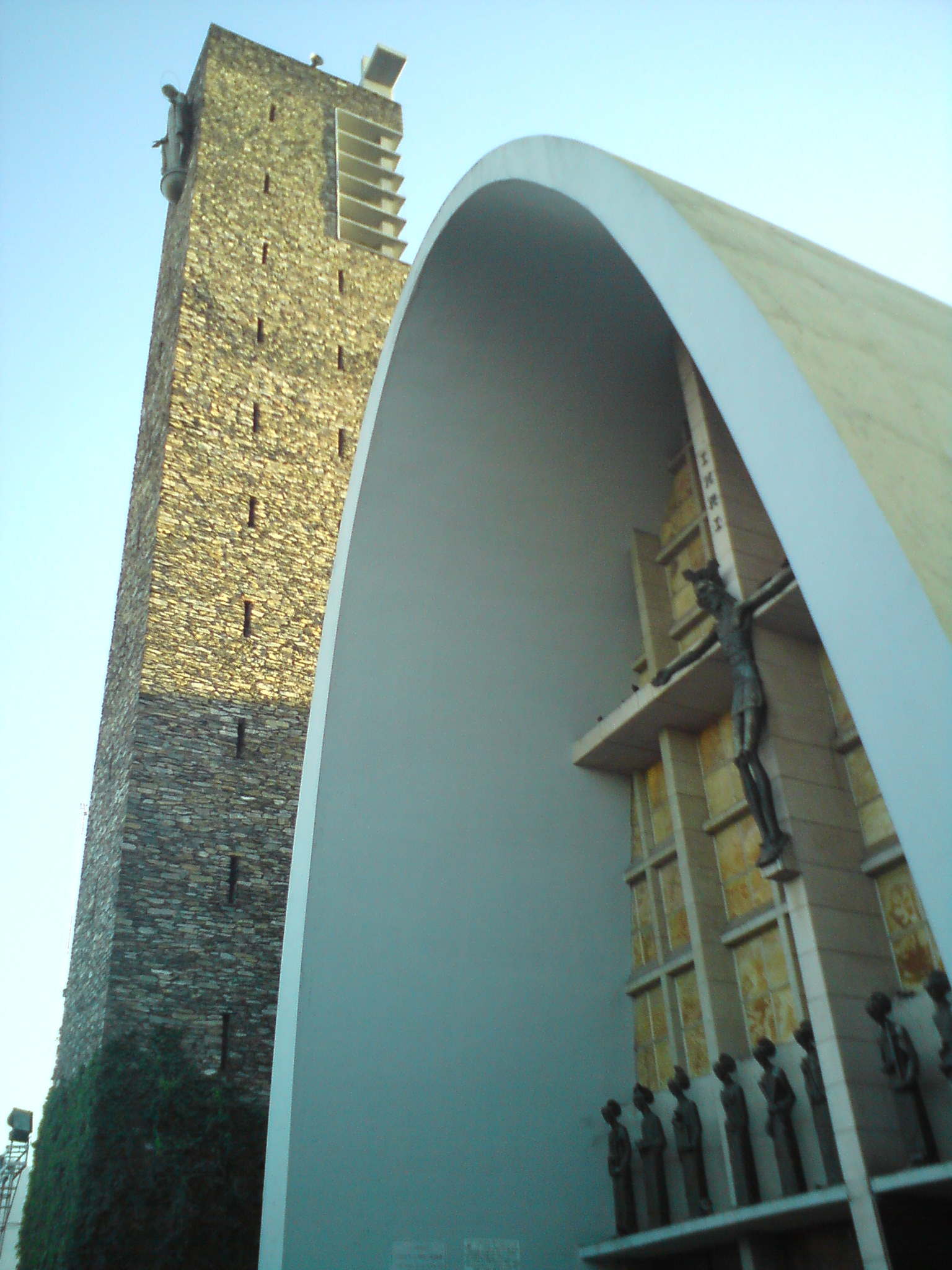 Principal entrance to the basilica